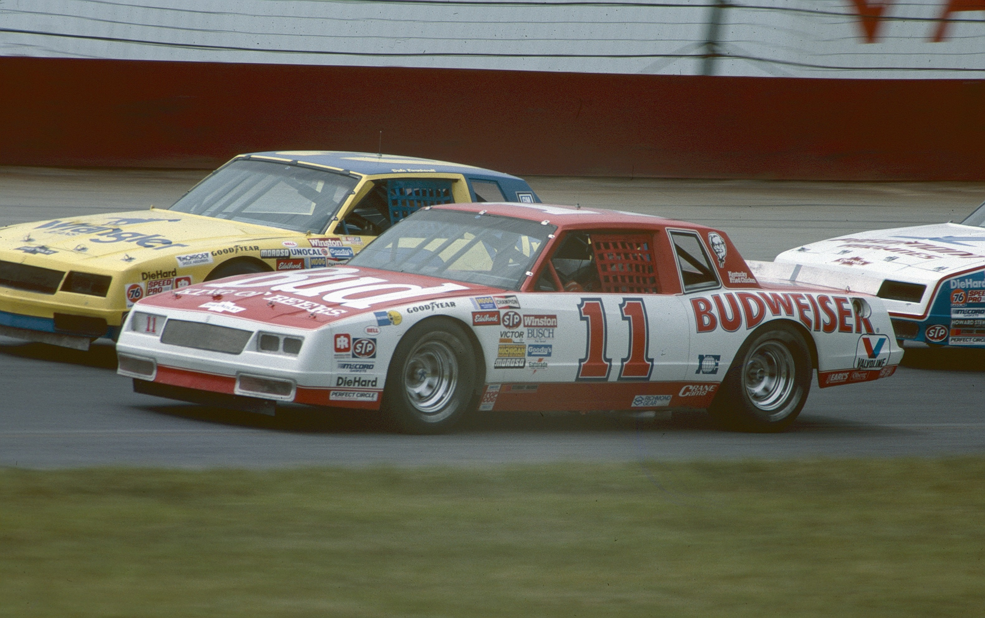 Darrell Waltrip's 1985 NASCAR championship racecar. Photo By Ted Van Pelt